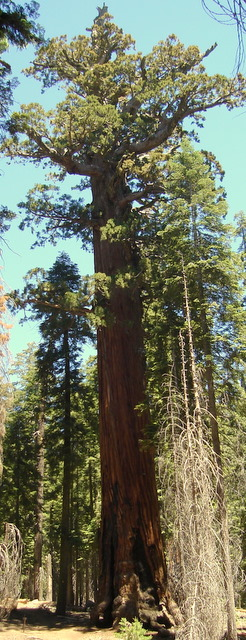 Photograph of the Lincoln Tree, a Giant Redwood (Sequoiadendron giganteum). Among the ten largest Giant redwoods.